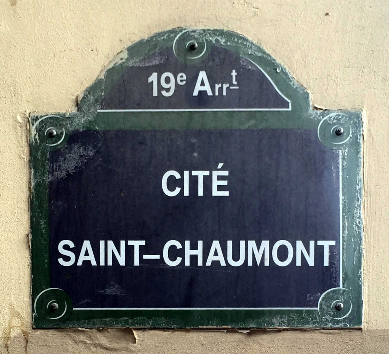 This photograph was taken with an iPhone 6